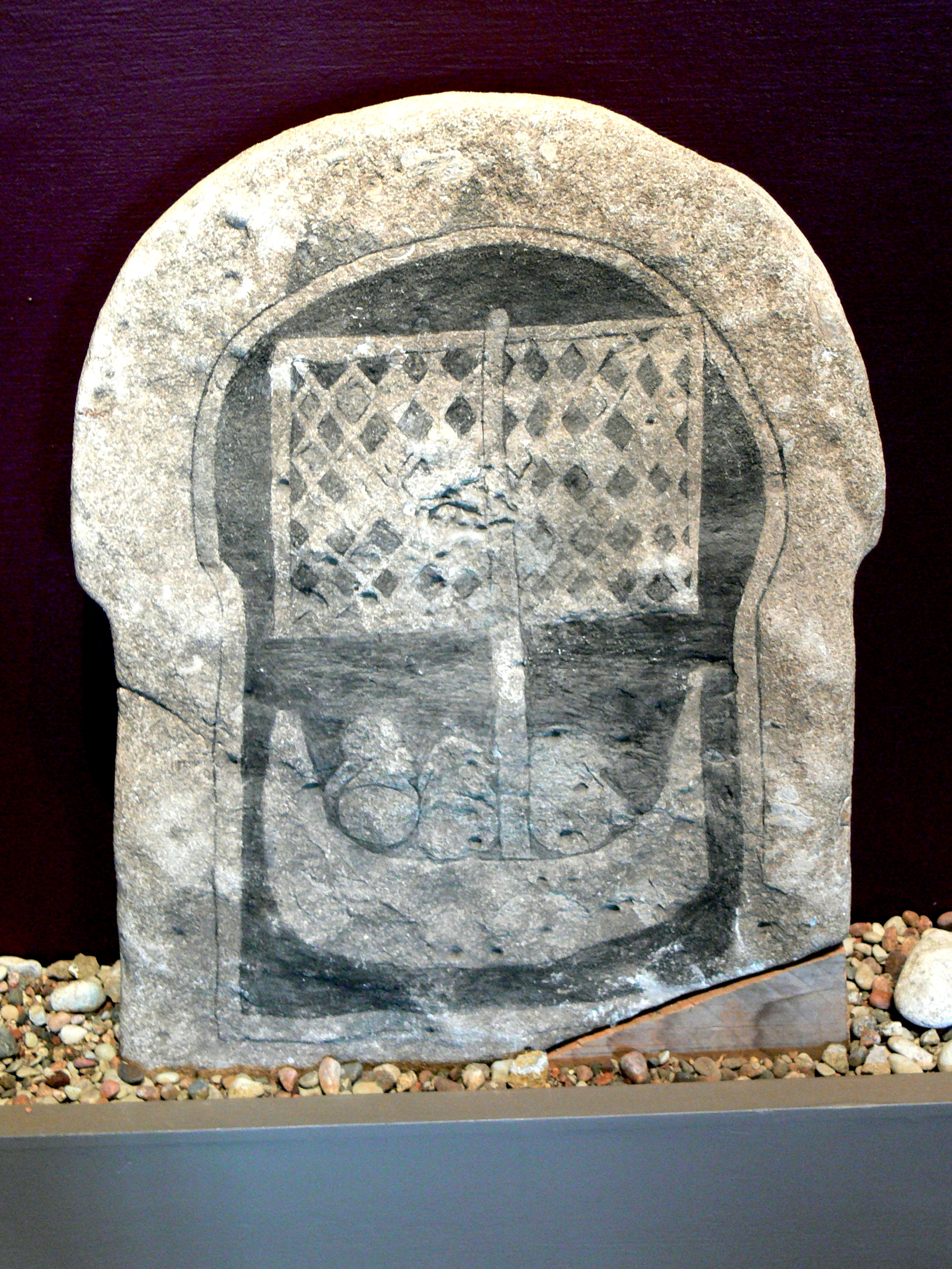 Fornsalen Museum, Visby ( Gotland ). Picture stone showing a ship.